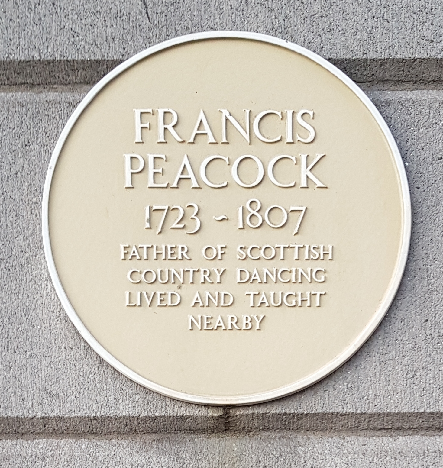 Commemorative plaque for Francis Peacock, Castlegate, Aberdeen